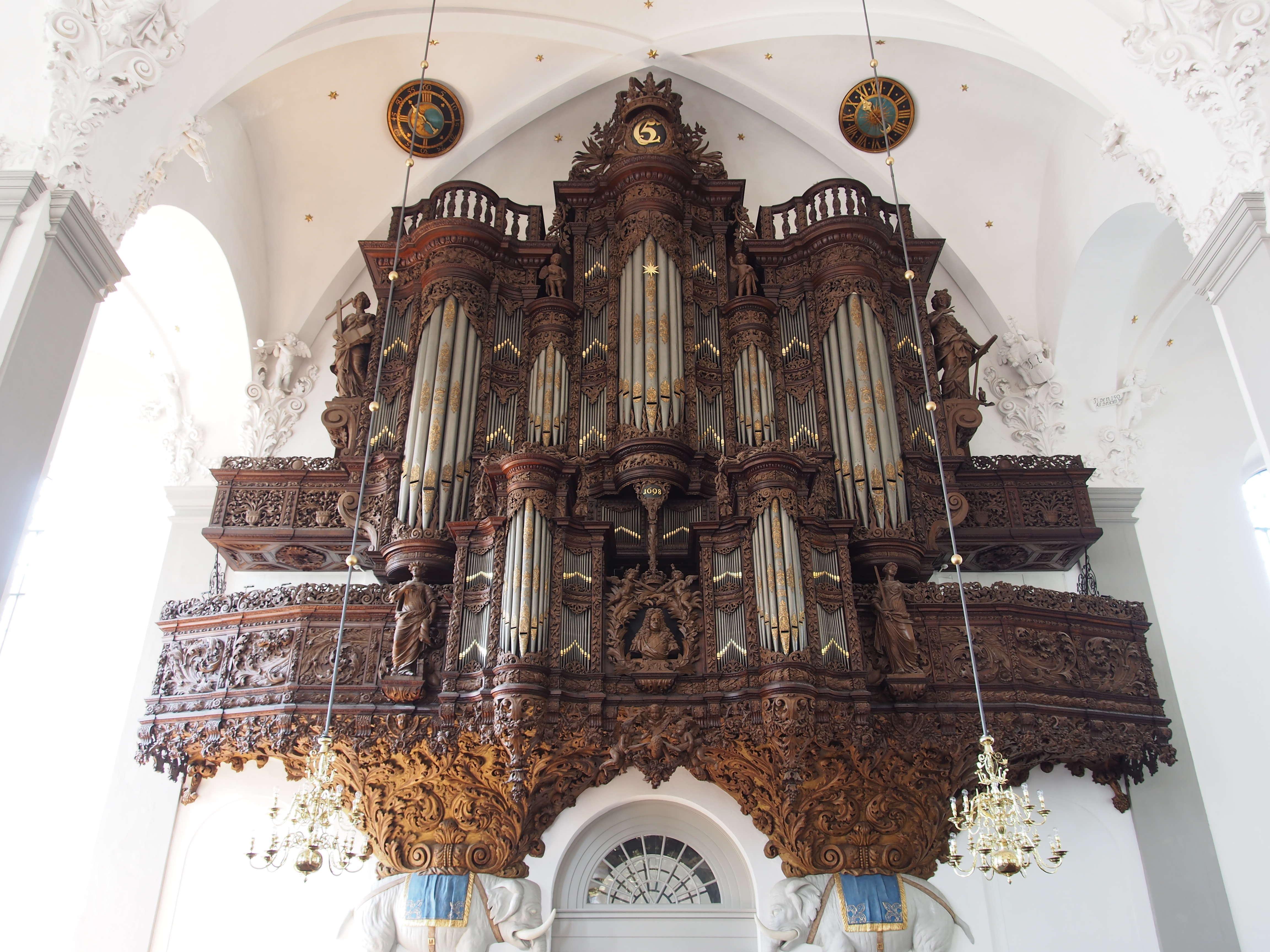 Photographed at the Copenhagen, Denmark.